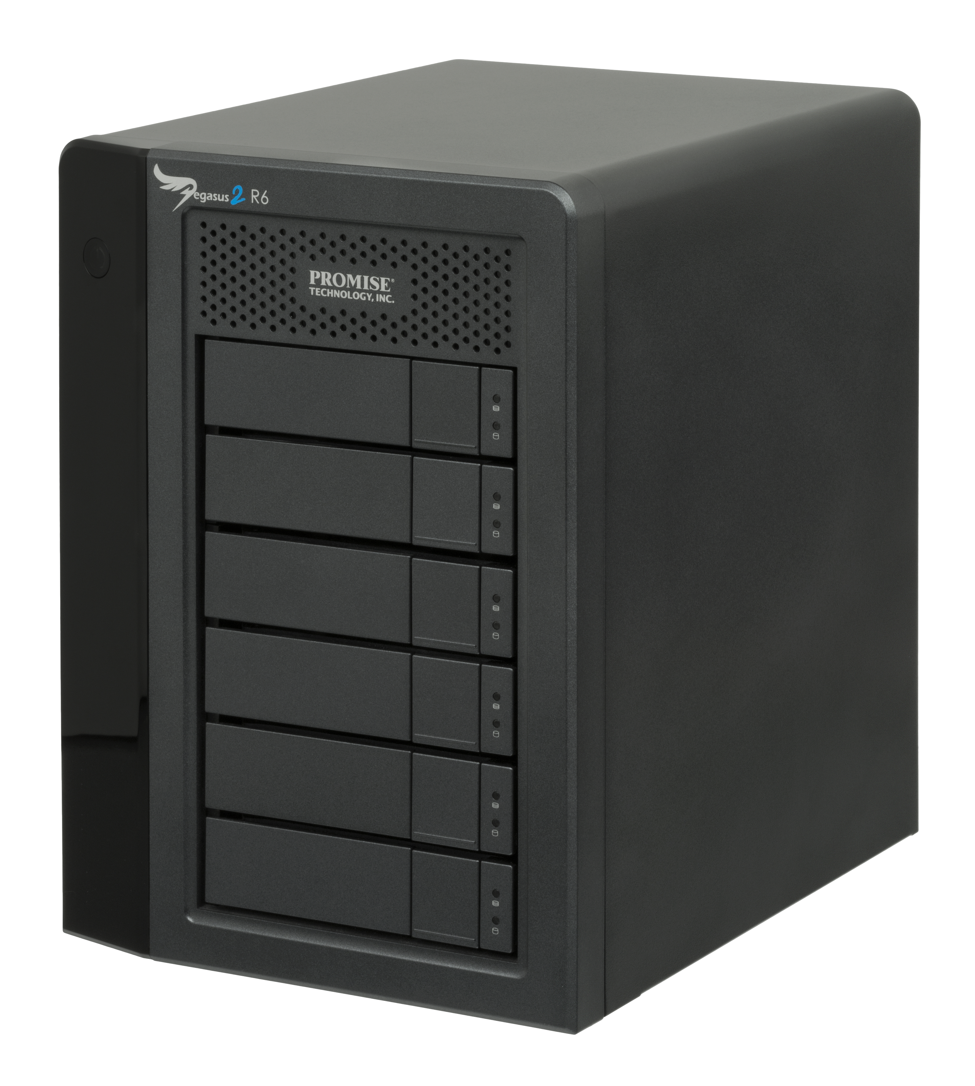 A direct-attached storage device made by Promise Technologies, the Pegasus2 R6, which holds up to six 3.5" hard disk drives. Used primarily for Macs, the R6 uses a thunderbolt connector to connect directly to a computer. Its storage can then be used locally or shared across a network.